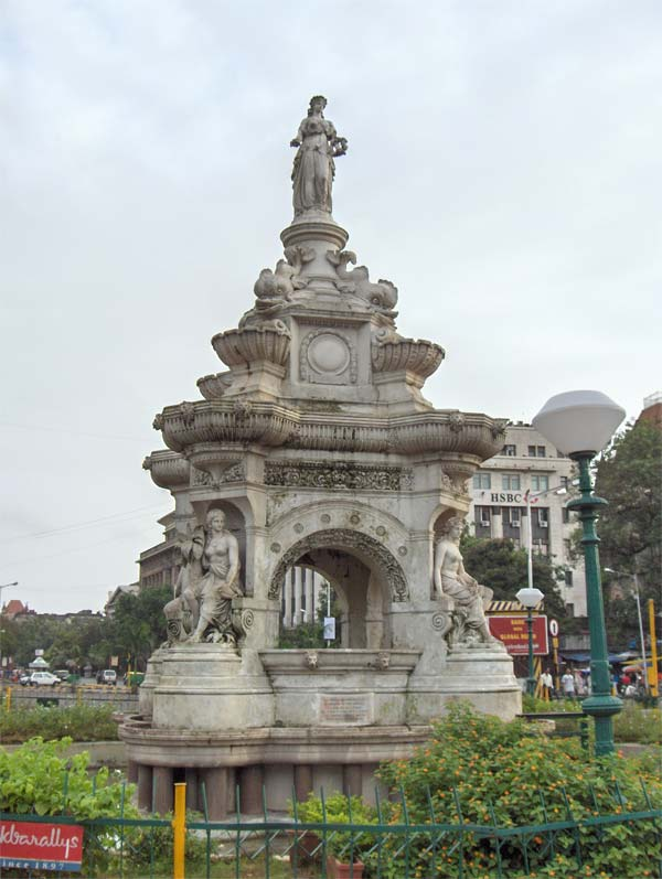 Flora Fountain named after the Roman godess flora in Mumbai, India.